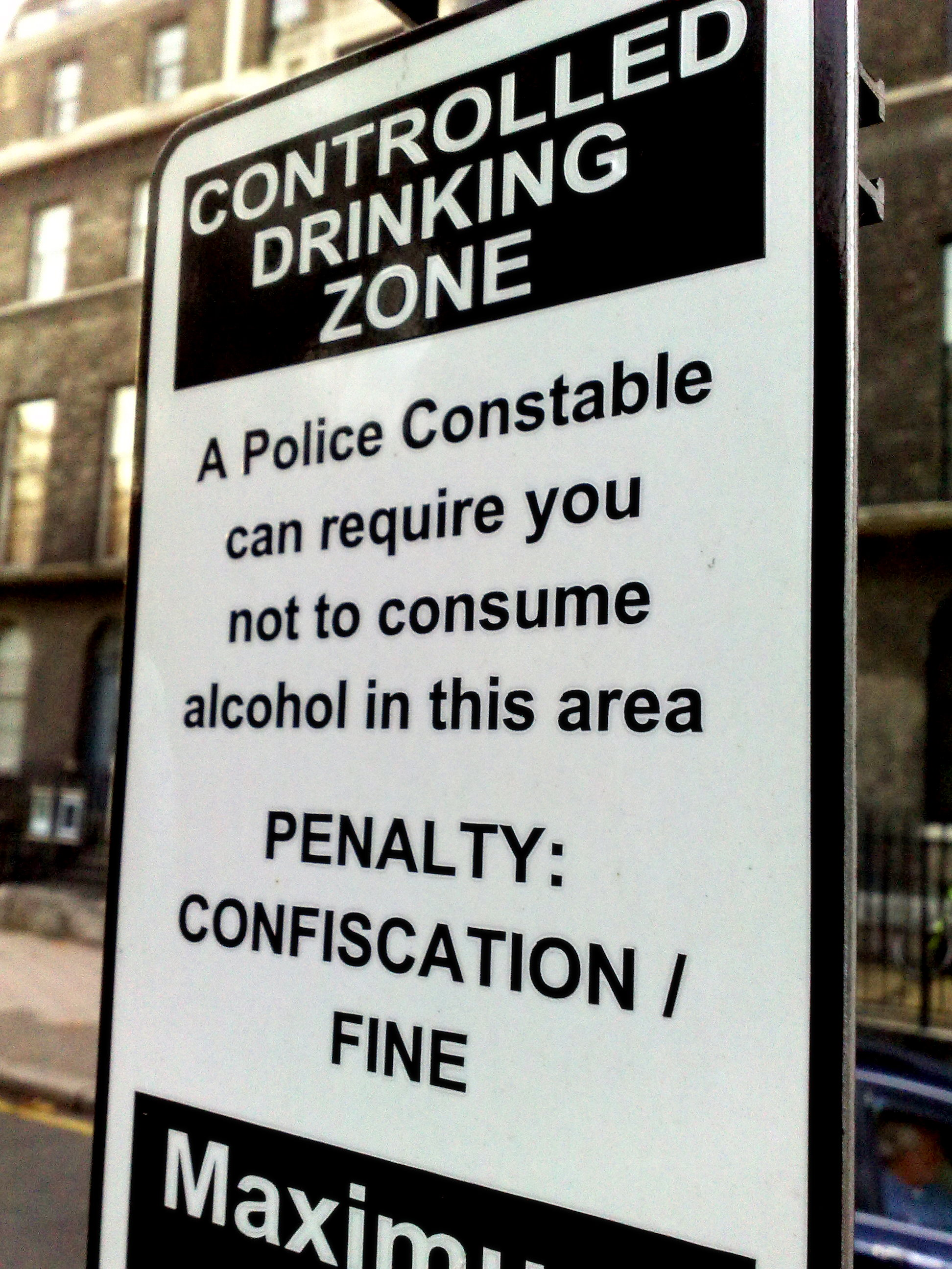 No Street Drinking allowed